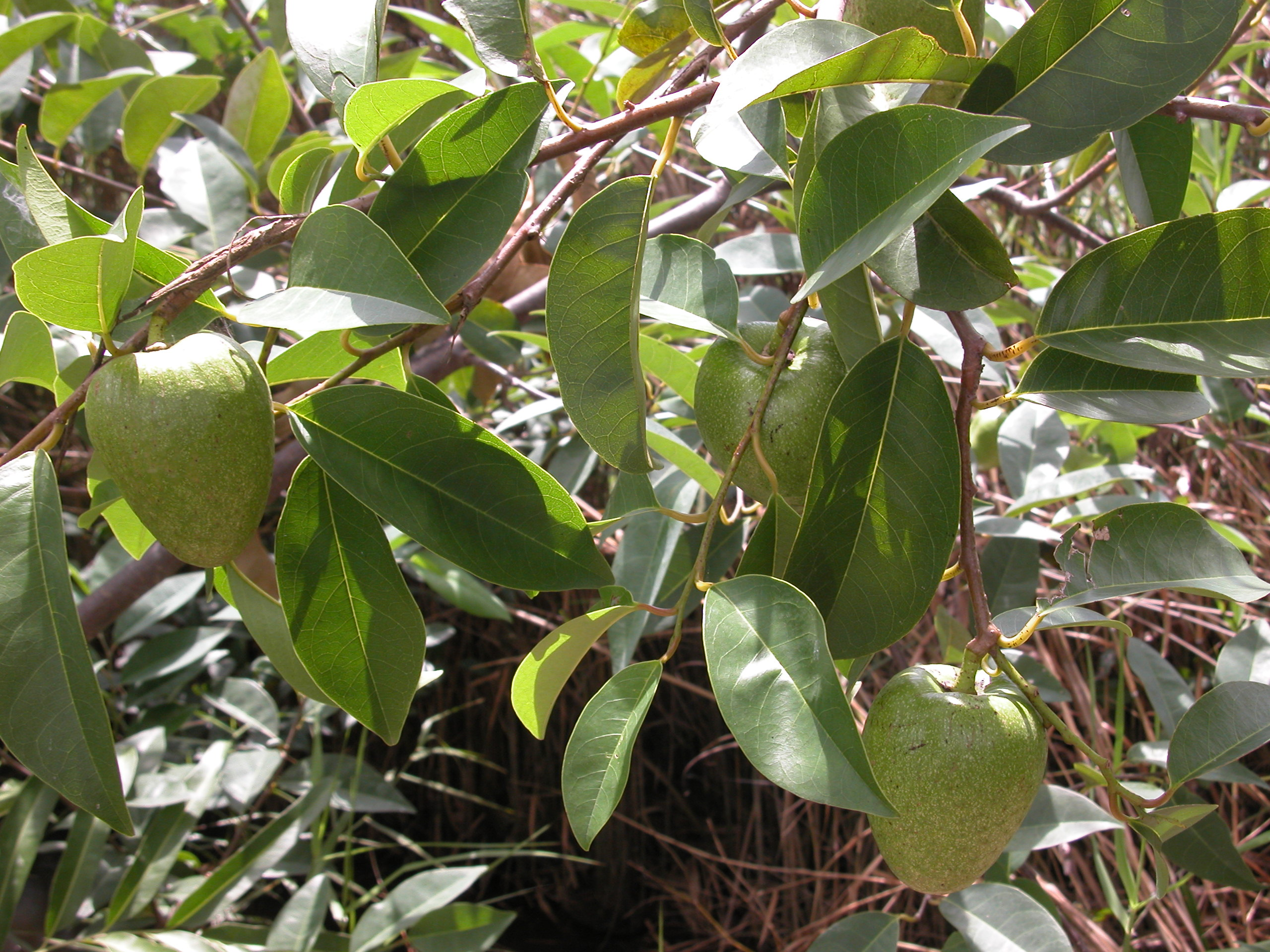 Leaves and fruits of Annona glabra.